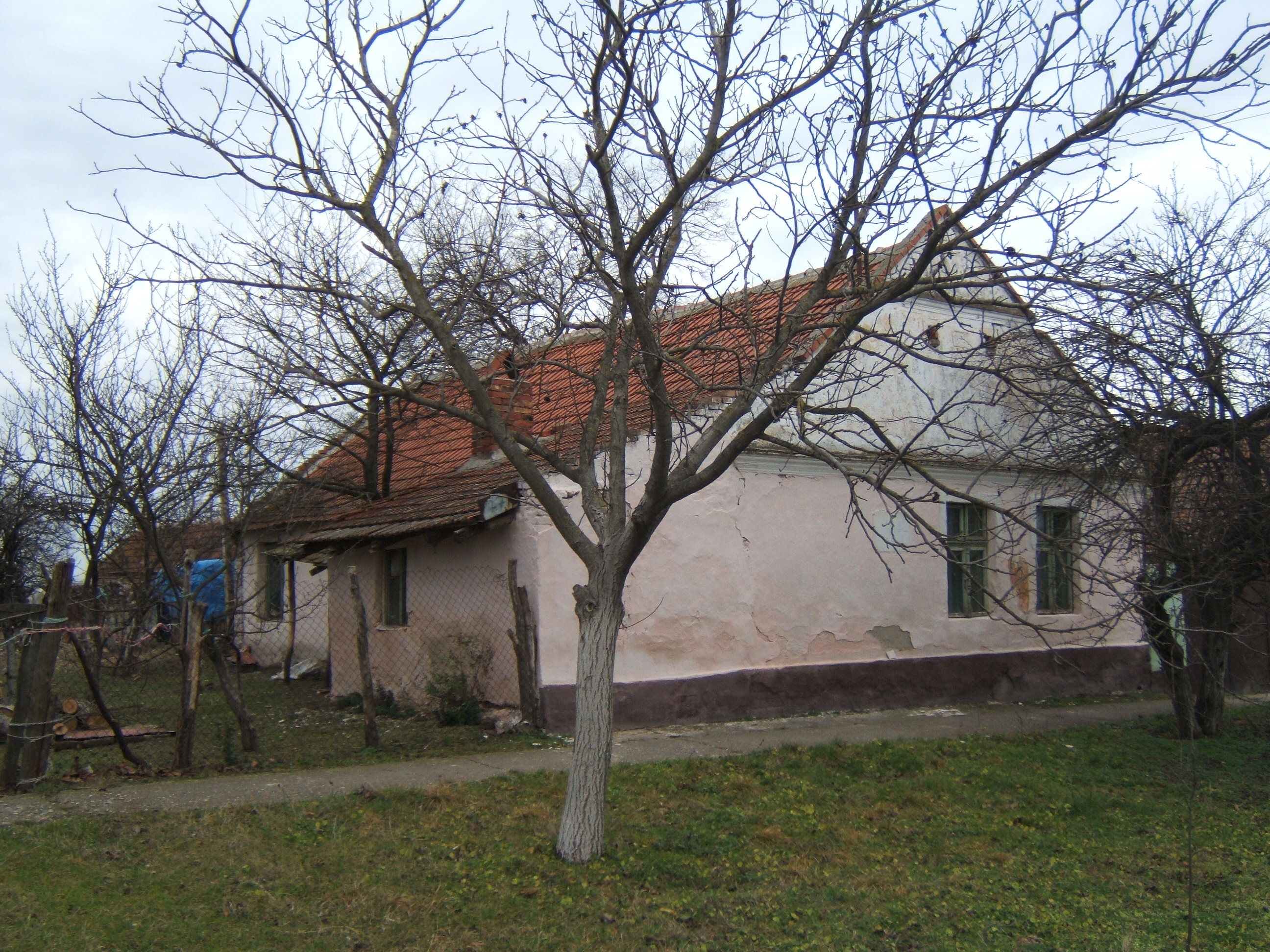 Partisan base in Botoš - street facade